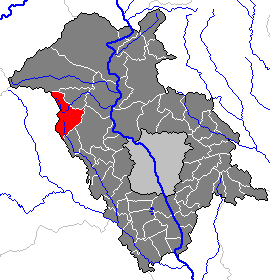 This map shows the area of the Gemeinde (municipality) Gschnaidt in the Bezirk (district) Graz-Umgebung, Styria, Austria.